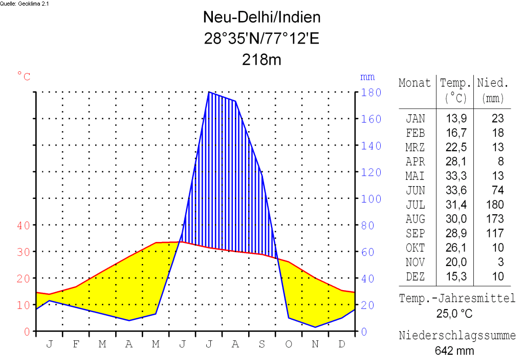 climate chart in the format by Walter and Lieth, metric, °Celsisus and millimeters, made with Geoklima 2.1